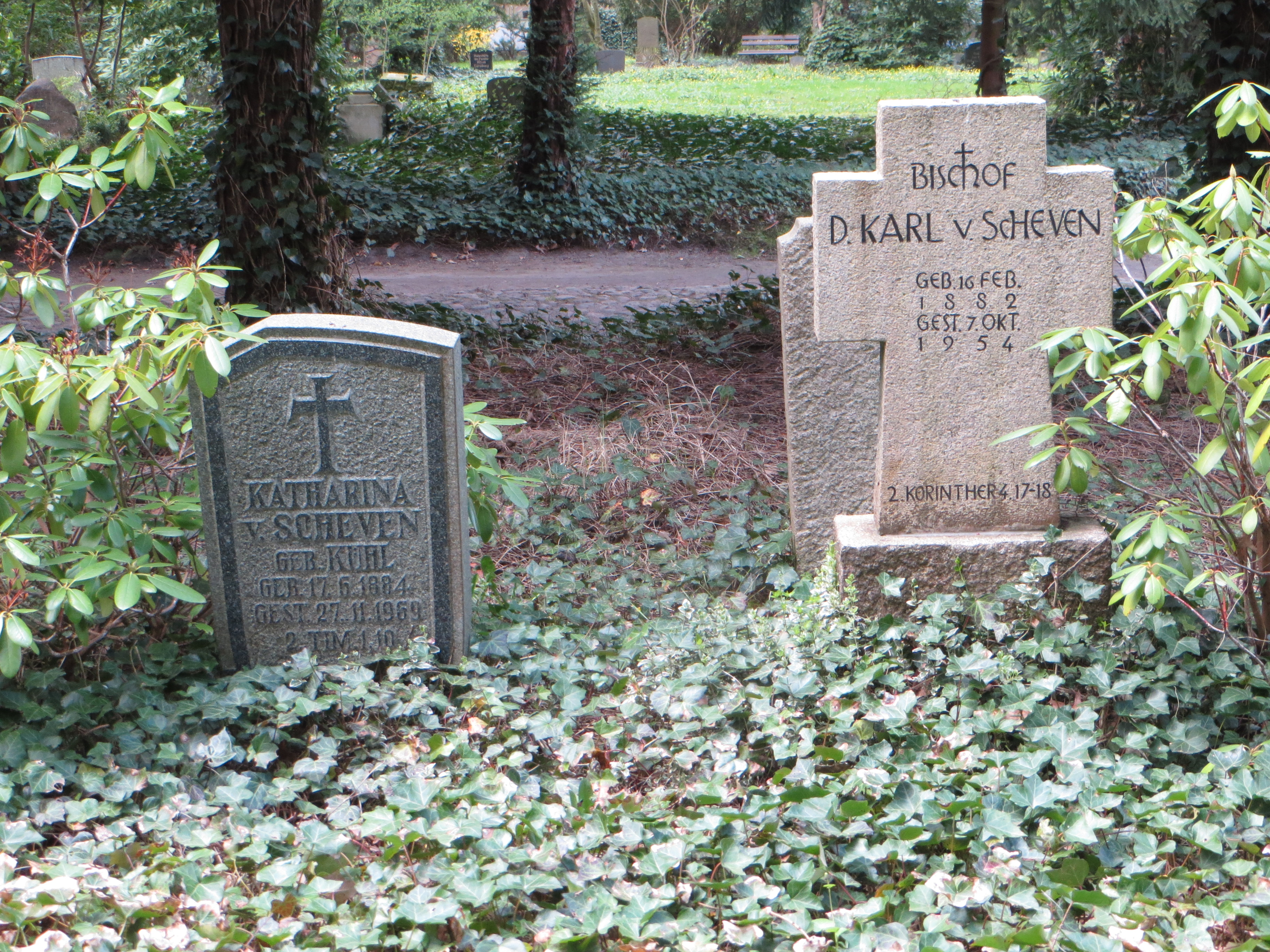 Grave of bishop Karl von Scheven and his wife, Alter Friedhof Greifswald